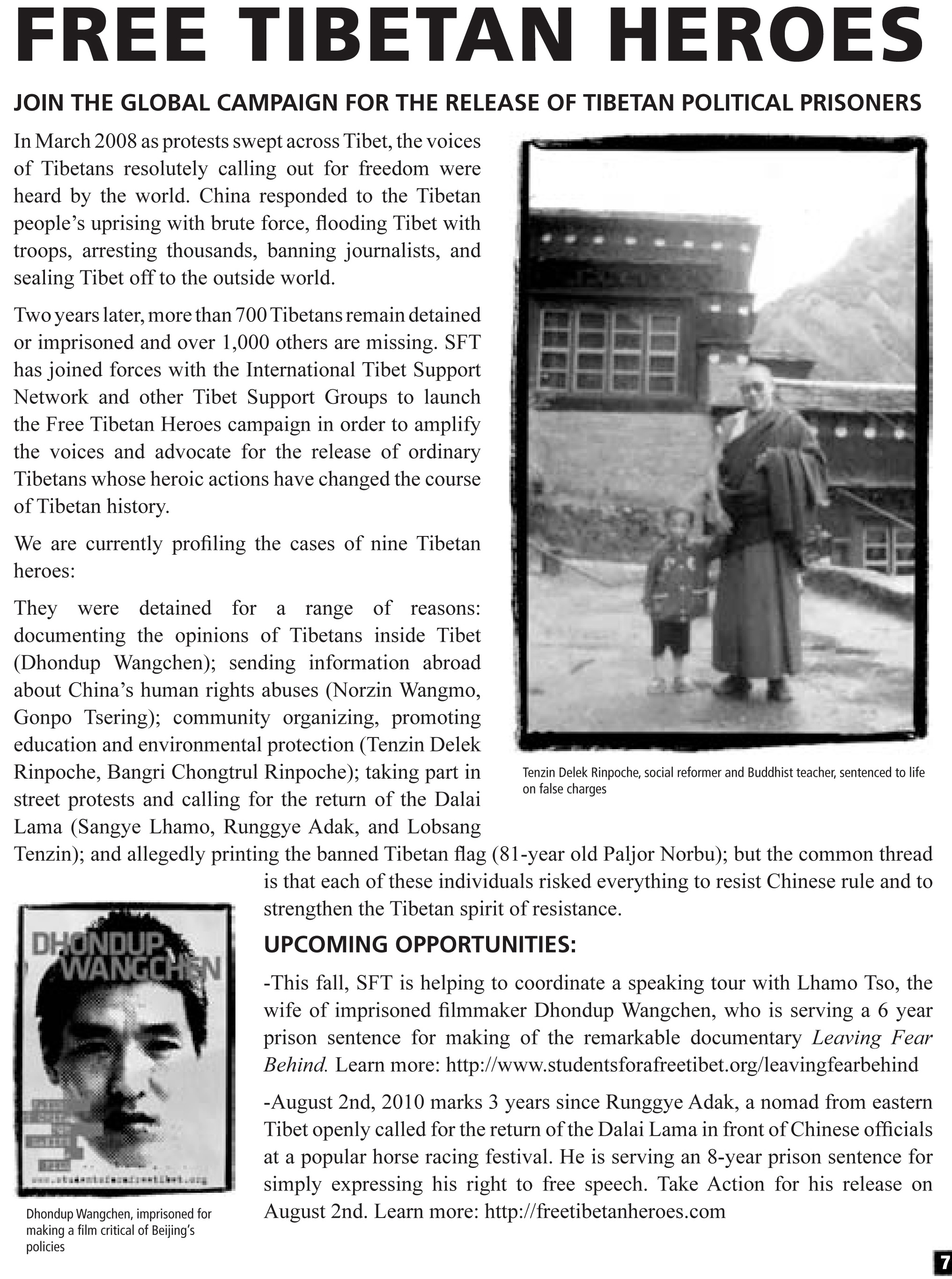 SFT's 2010 Newsletter